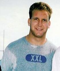 Taken by user and released into public domain.